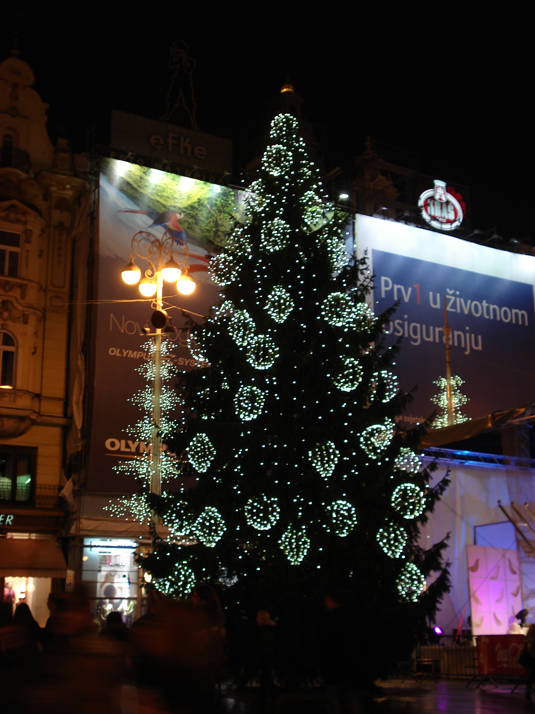 Christmas tree, Ban Jelačić Square, Zagreb